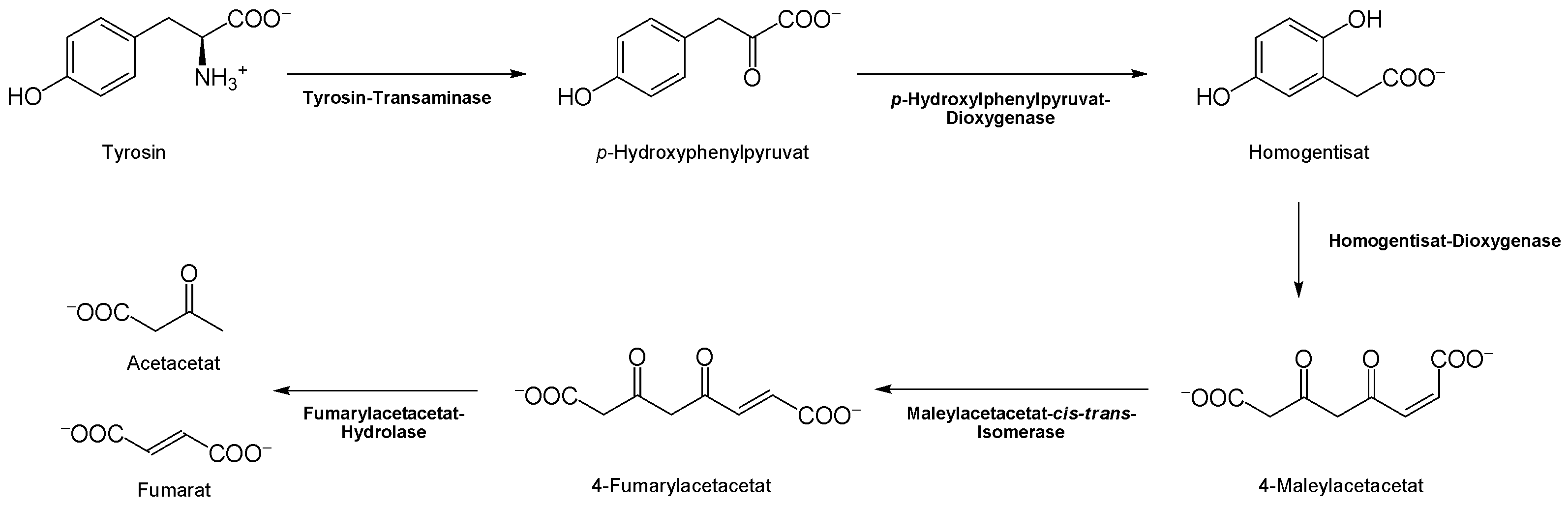 Degradatio of Tyrosine // Abbau von Tyrosin